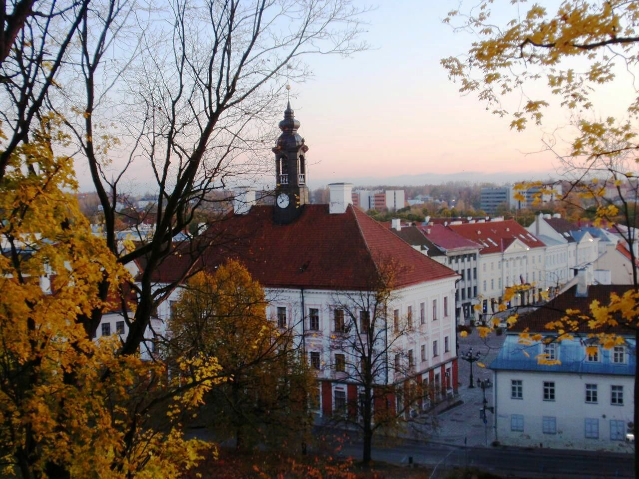 Overlooking Tartu Town Hall from Toome Hill.